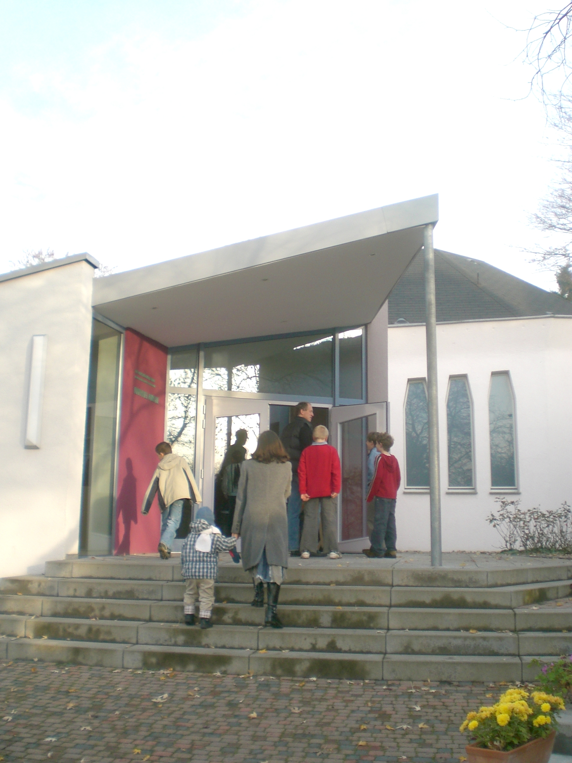 The Christian Community, Raphael Church in Darmstadt, Germany